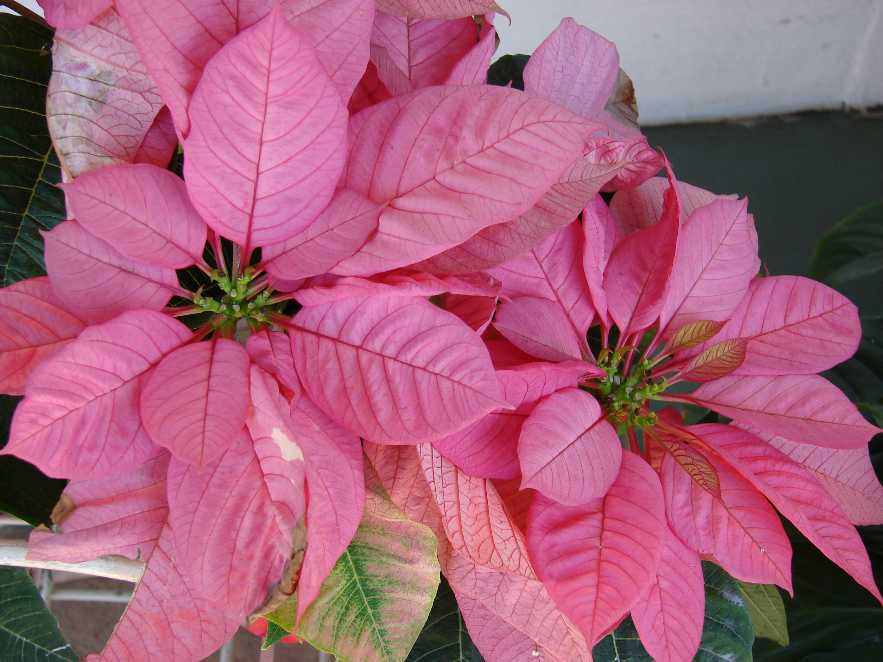 Euphorbia pulcherrima (flowers pink). Location: Maui, Makawao